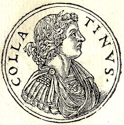 Tarquinius Collatinus is traditionally one of the first two consuls of Rome, together with Lucius Junius Brutus.